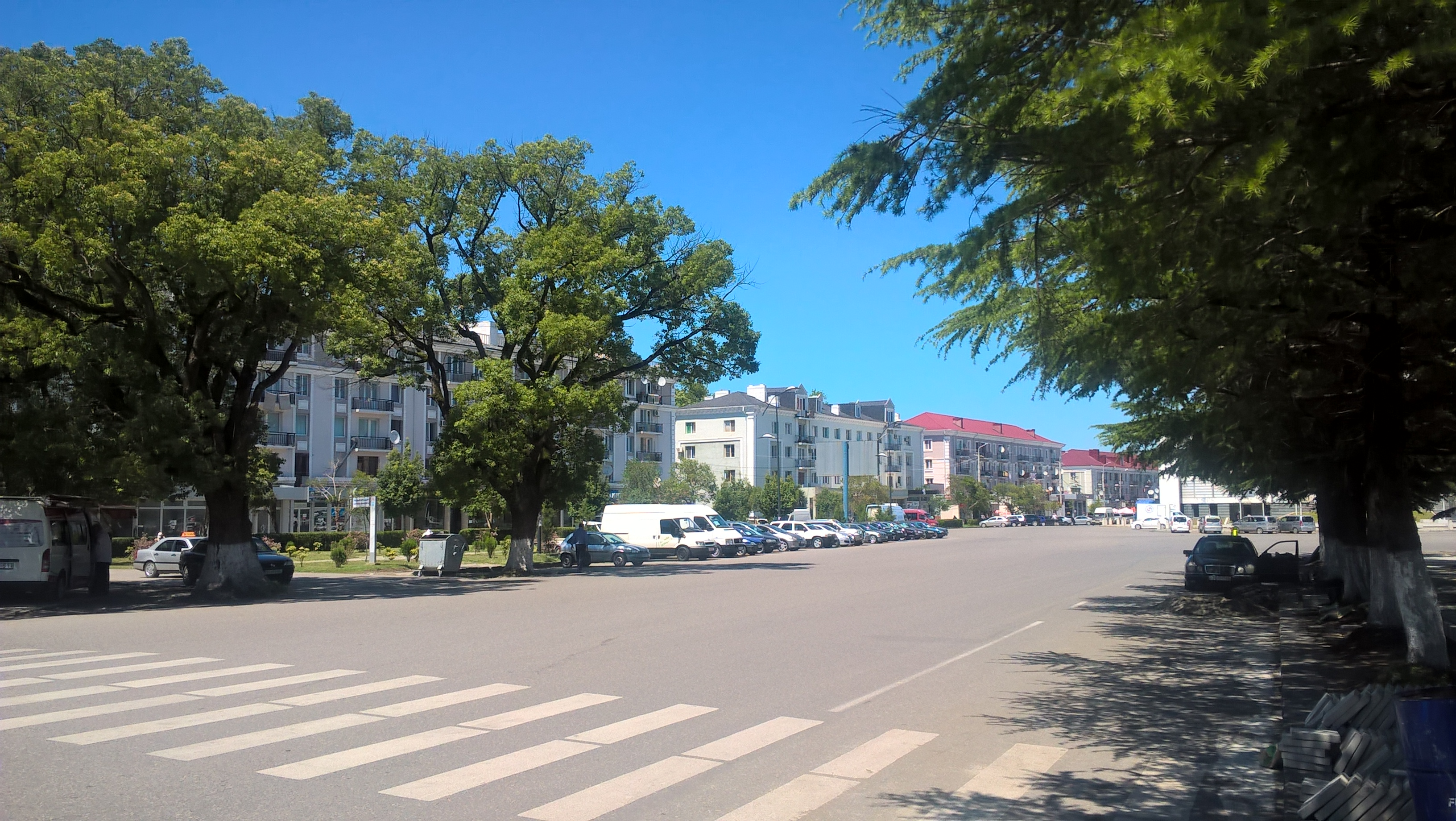 King Parnavaz Street in Poti, Georgia